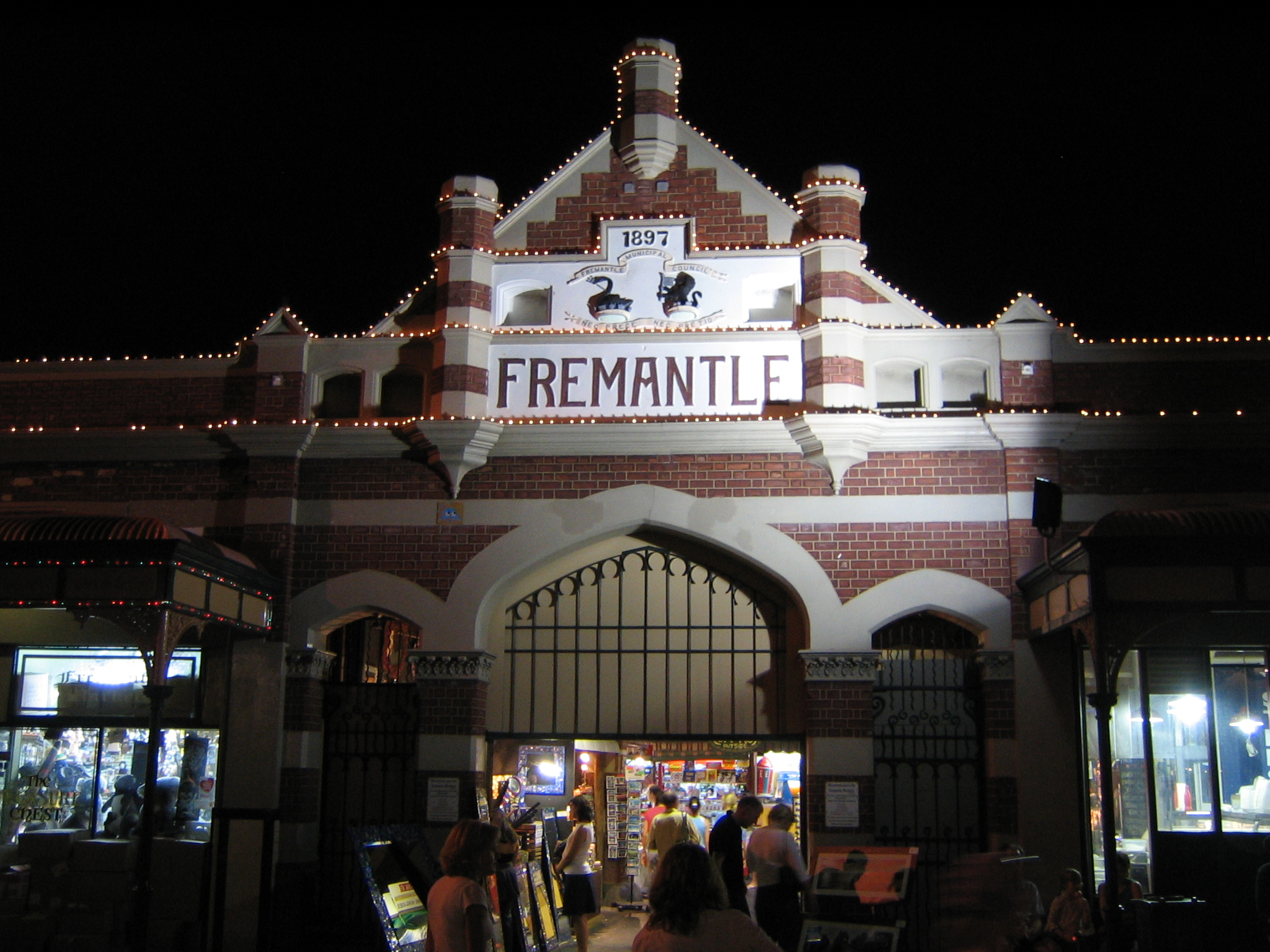 Fremantle Markets at night, Fremantle, Western Australia.